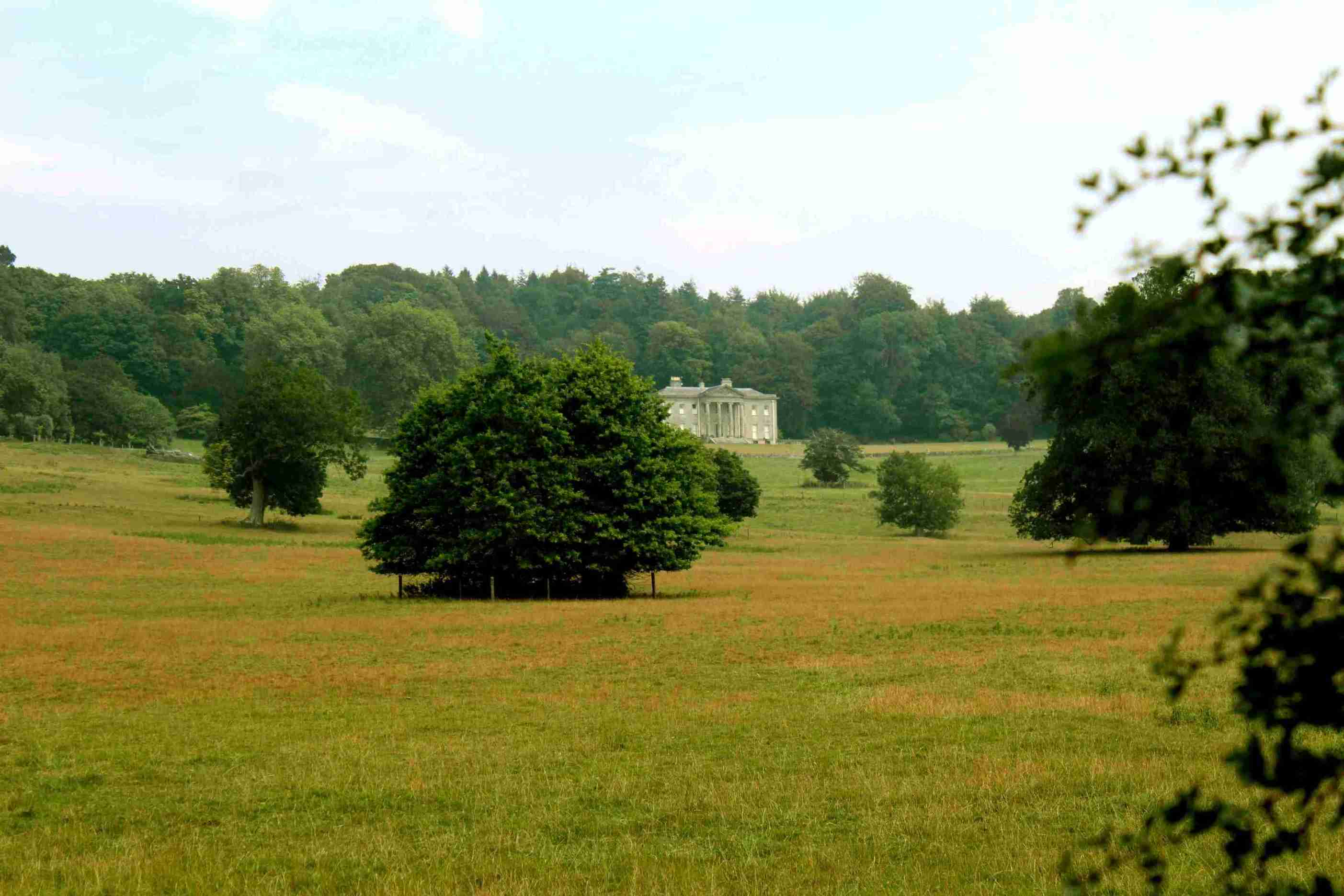 UK PytHouse estate view from the south from the public road